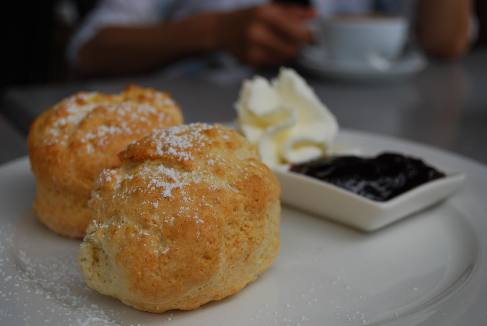 oven-baked small cakes, traditional component of a British tea time